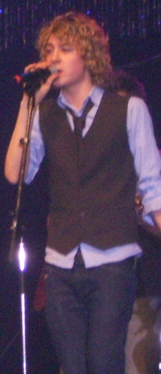 Kalan Porter cropped, former Canadian Idol singer